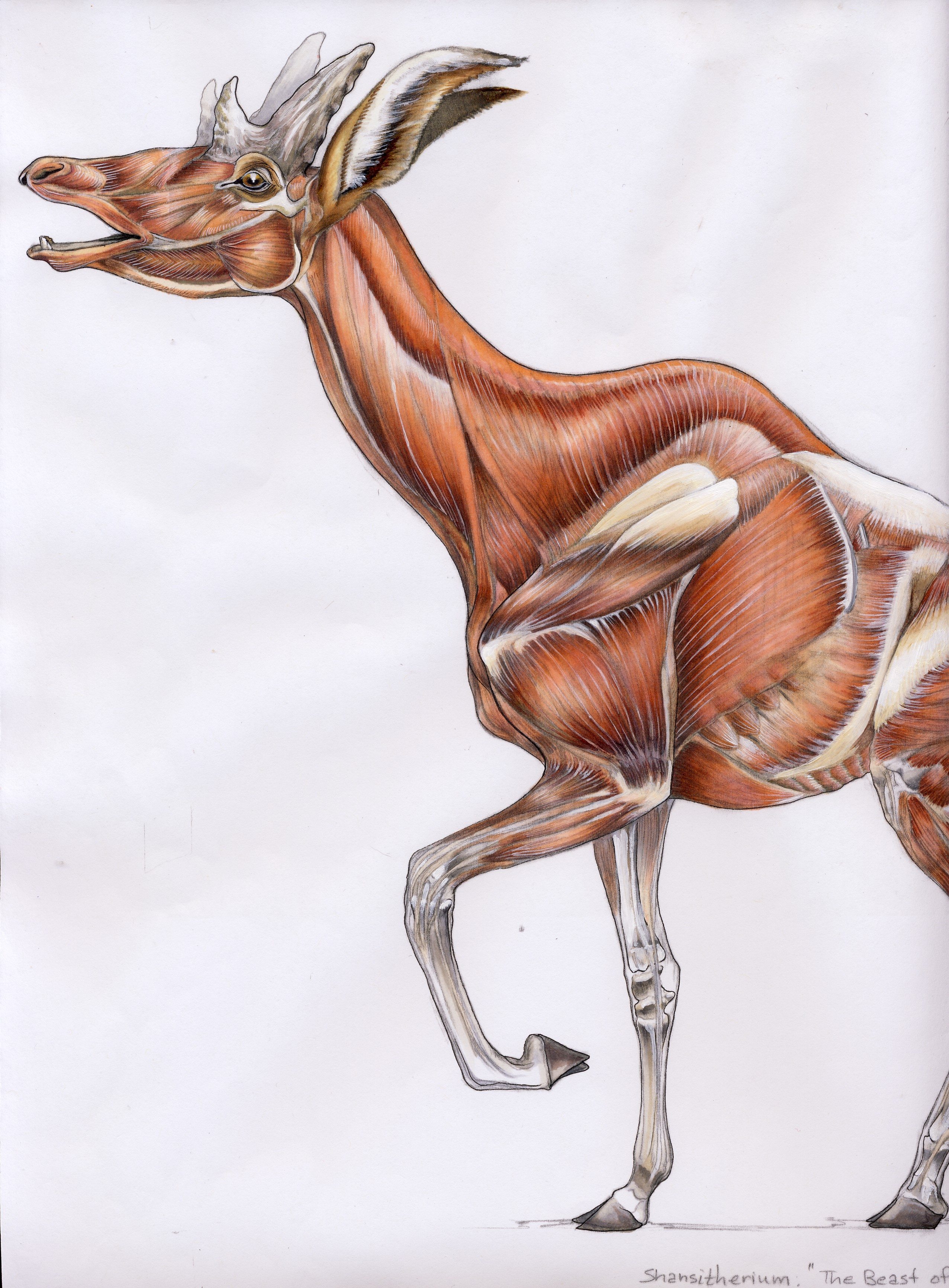 Musculature of Shansitherium colored with Copic Markers. Based on fossil skeleton at Houston Museum of Natural Science Hall of Paleontology.